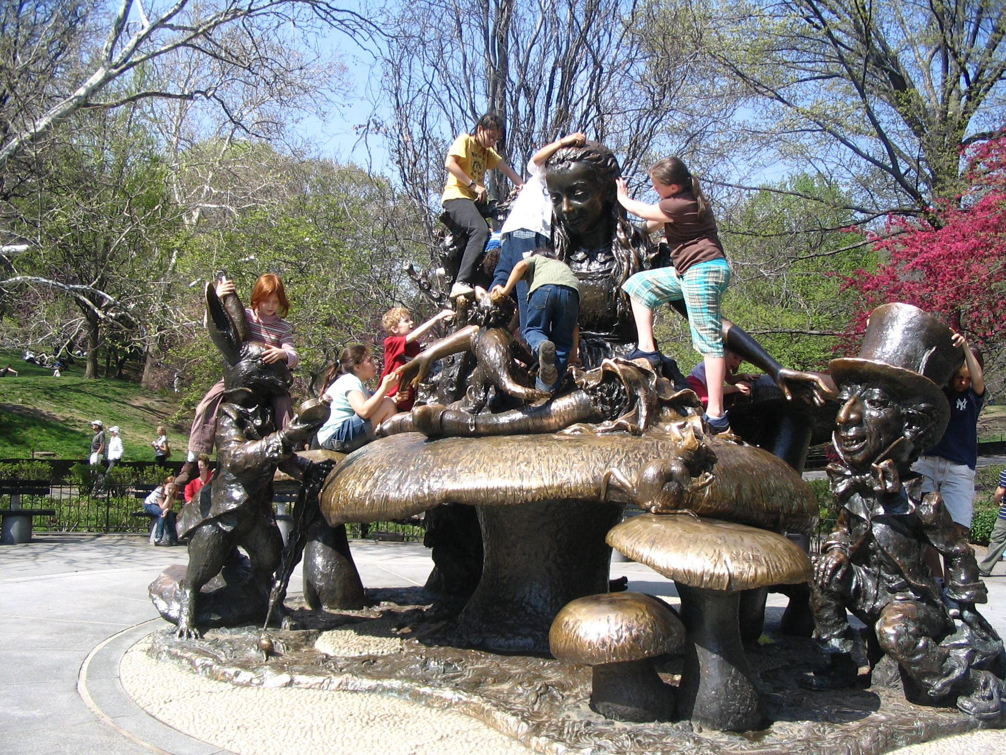 Central Park- Alice in Wonderland - By Jose de Creeft